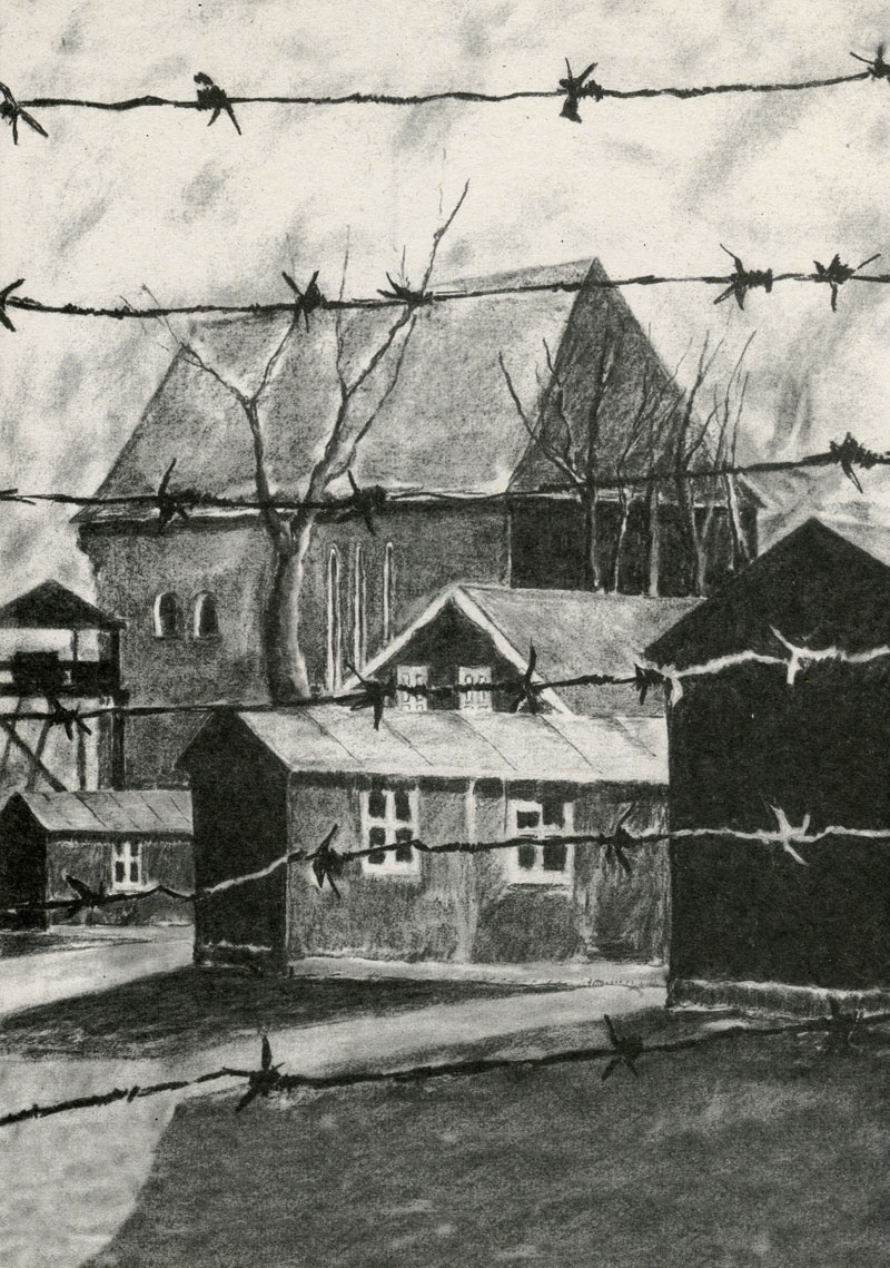 Painting of KZ Engerhafe